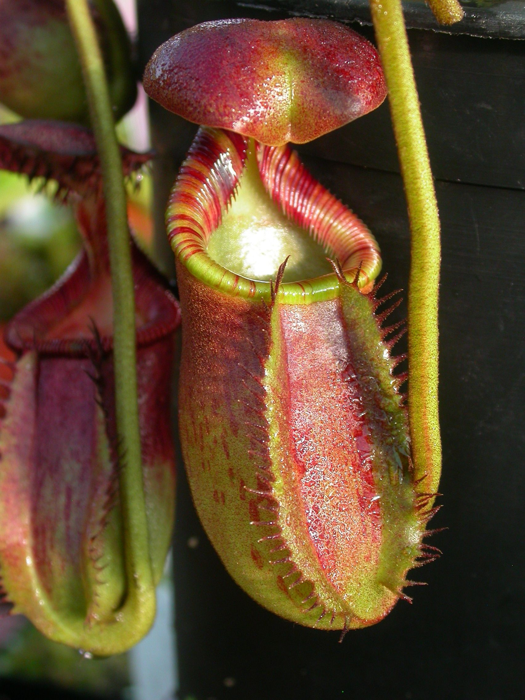 Cultivated N. ephippiata.